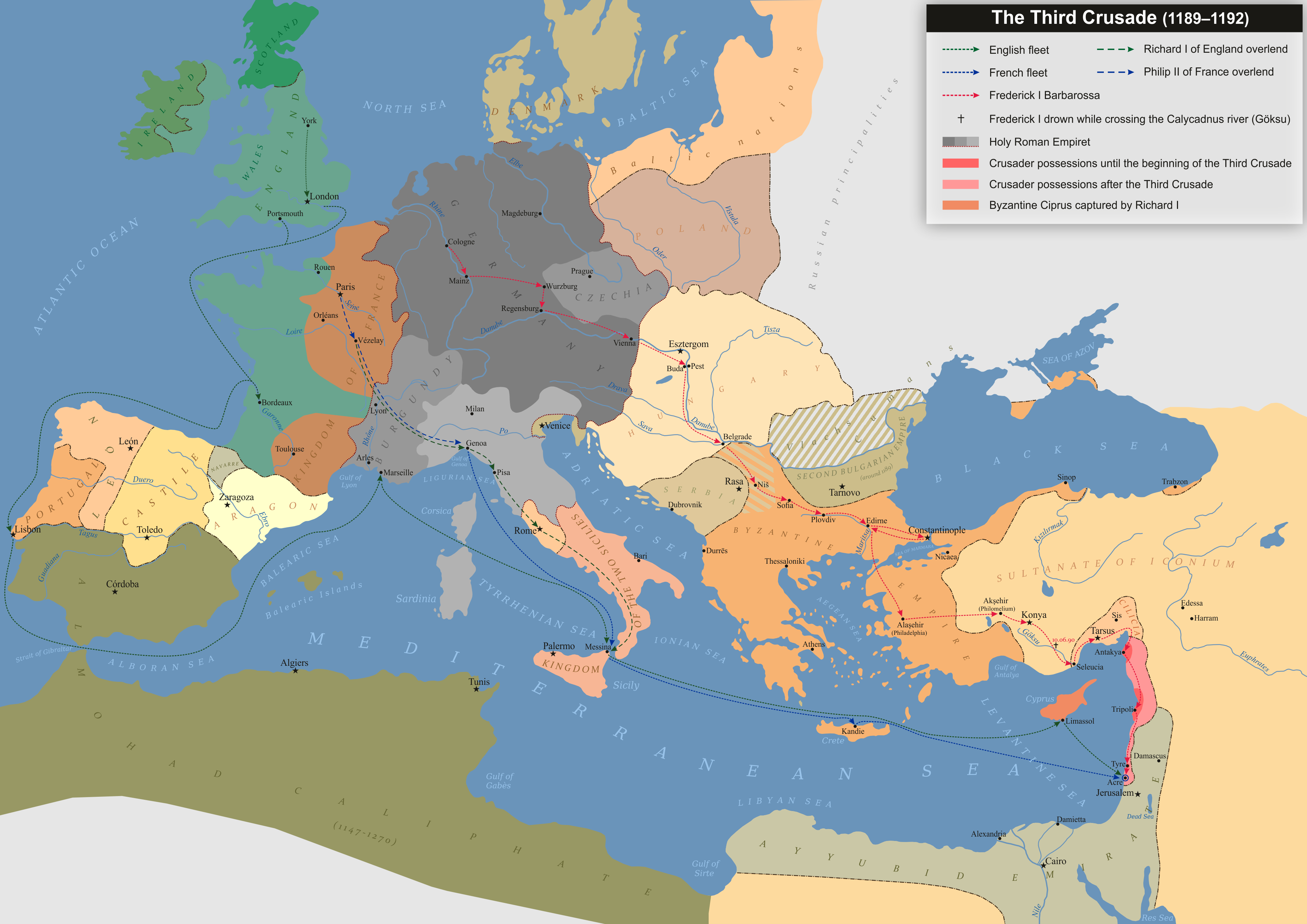 The Third Crusade (1189-1192) Based on: Карта "Кръстоносни походи (ХІ-ХІІІ в.)" в "Атлас по история на Средните векове за шести клас", КИПП по картография, София, 1979 г.